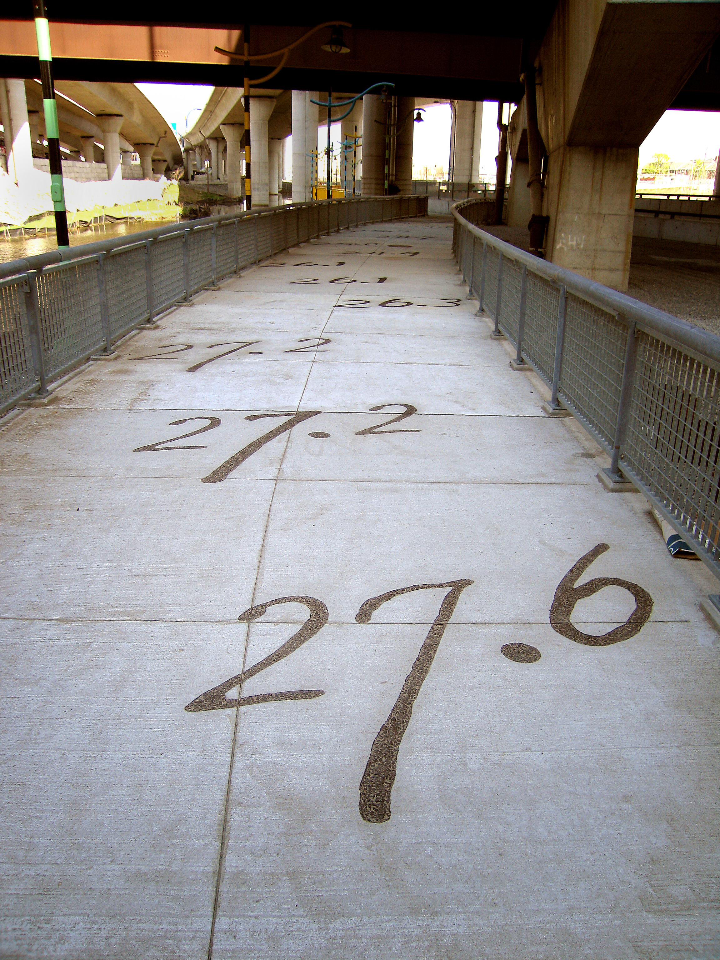 Depths numbers from an 1835 Boston Harbor depth chart etched into concrete of Littoral Way pedestrian path.